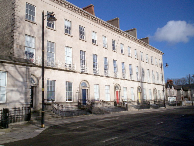 Charlemont Place, Armagh When the Mall was developed as public walks in 1798, the racecourse having been removed from the area, it became one of the most desirable residential areas in Armagh. The fine houses of Charlemont Place were built on the east side between 1820 and 1840. The Southern Education and Library Board now occupy all five houses.